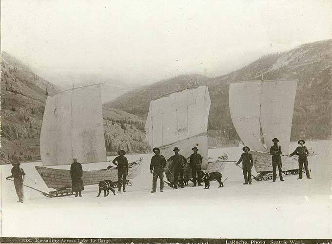 Caption on image: "Ice-sailing across Lake Le Barge" "Ice sailing across Lake Le Barge. The lake is a beautiful sheet of water thirty-five miles long. It is about twenty-four miles from the White Horse Rapids and the intervening River is smooth and deep the whole distance. It is no uncommon thing for the boat to be wind bound for several days at a time. When winter has set in and the lake has become a sheet of ice, the delightful sensation of sailing across the frozen surface will not only be enjoyed but will hasten the traveler on his northward journey. It is exhilarating and heathful, and if the wind be favorable it will recompense the gold-seeker for previous delays. The group in the photograph presents the appearance of a pleasure party rather than men who are fighting hardships." (Frank La Roche, En Route to the Klondike, 1898) Klondike Gold Rush. Subjects (LCTGM): Ice--Yukon; Lakes & ponds--Yukon; Iceboats--Yukon; Dogs--Yukon Territory Subjects (LCSH): Laberge, Lake (Yukon)